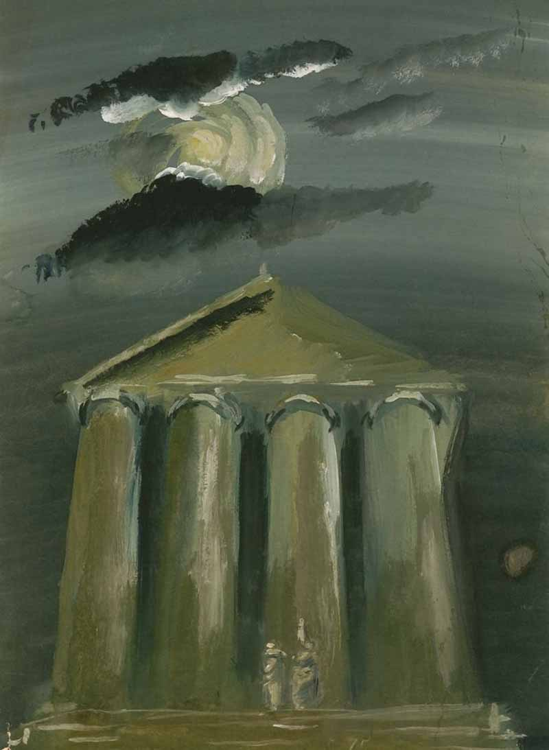 Illustration by Vera Ermolayeva to De rerum natura